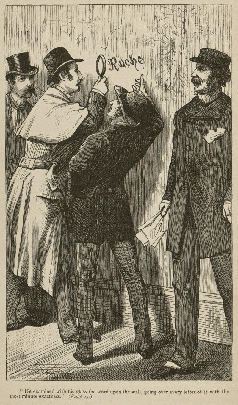 Arthur Conan Doyle, A Study in Scarlet (1887), Illustration by David Henry Friston, in Beeton's Christmas Annual